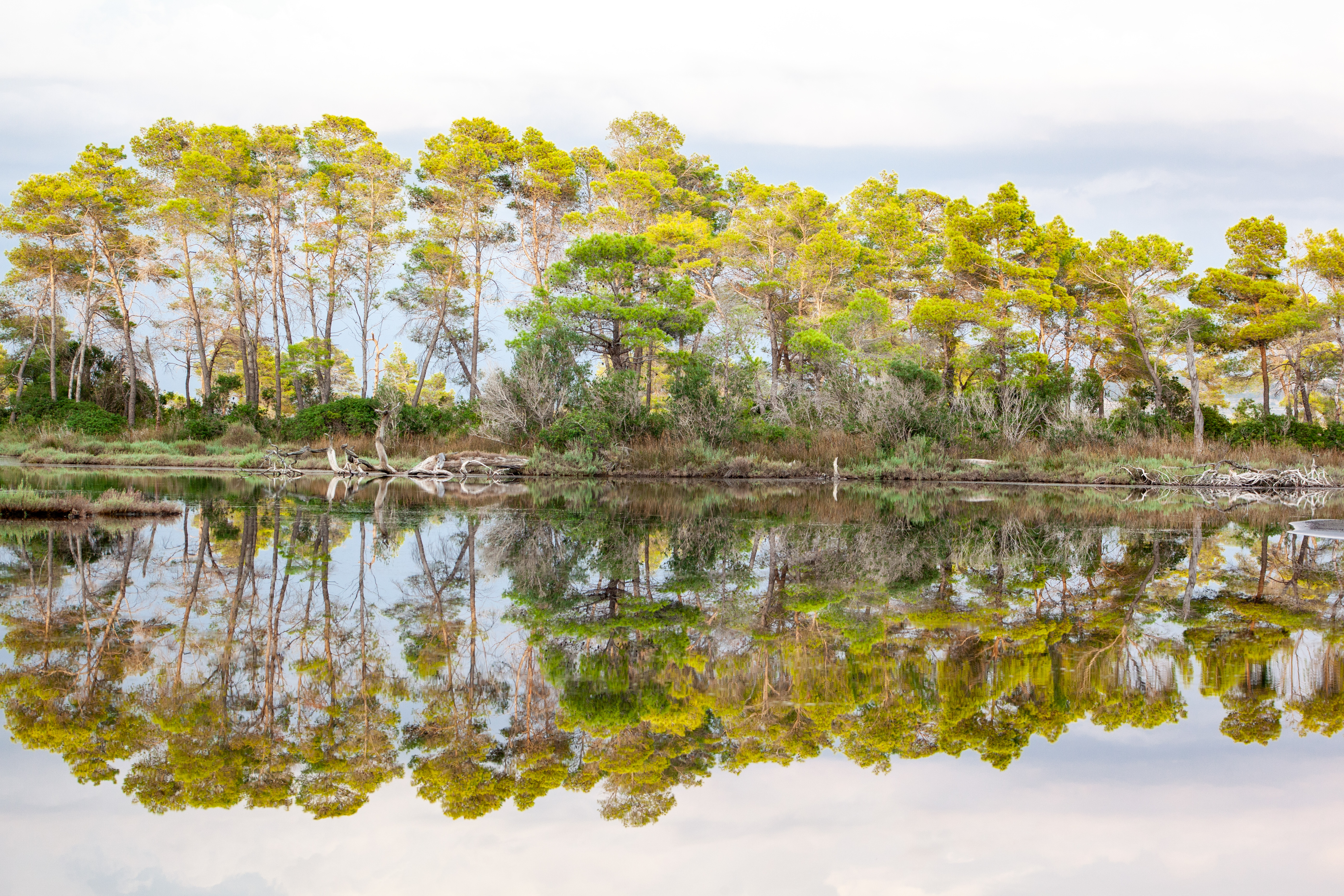 Typical Habitat in Divjakë-Karavasta National Park in Albania